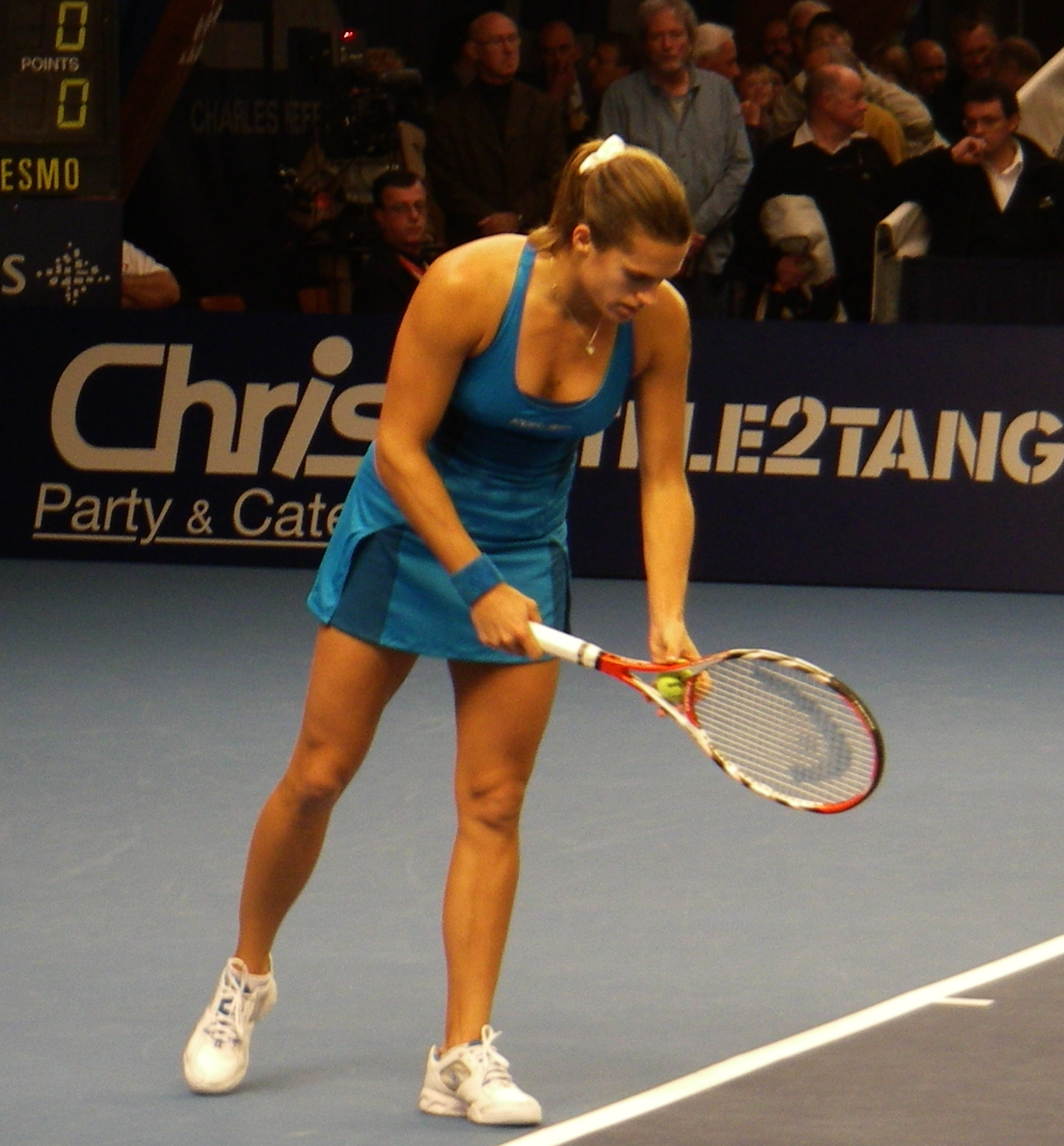 Amélie Mauresmo serving at the 2008 Fortis Championships Luxembourg